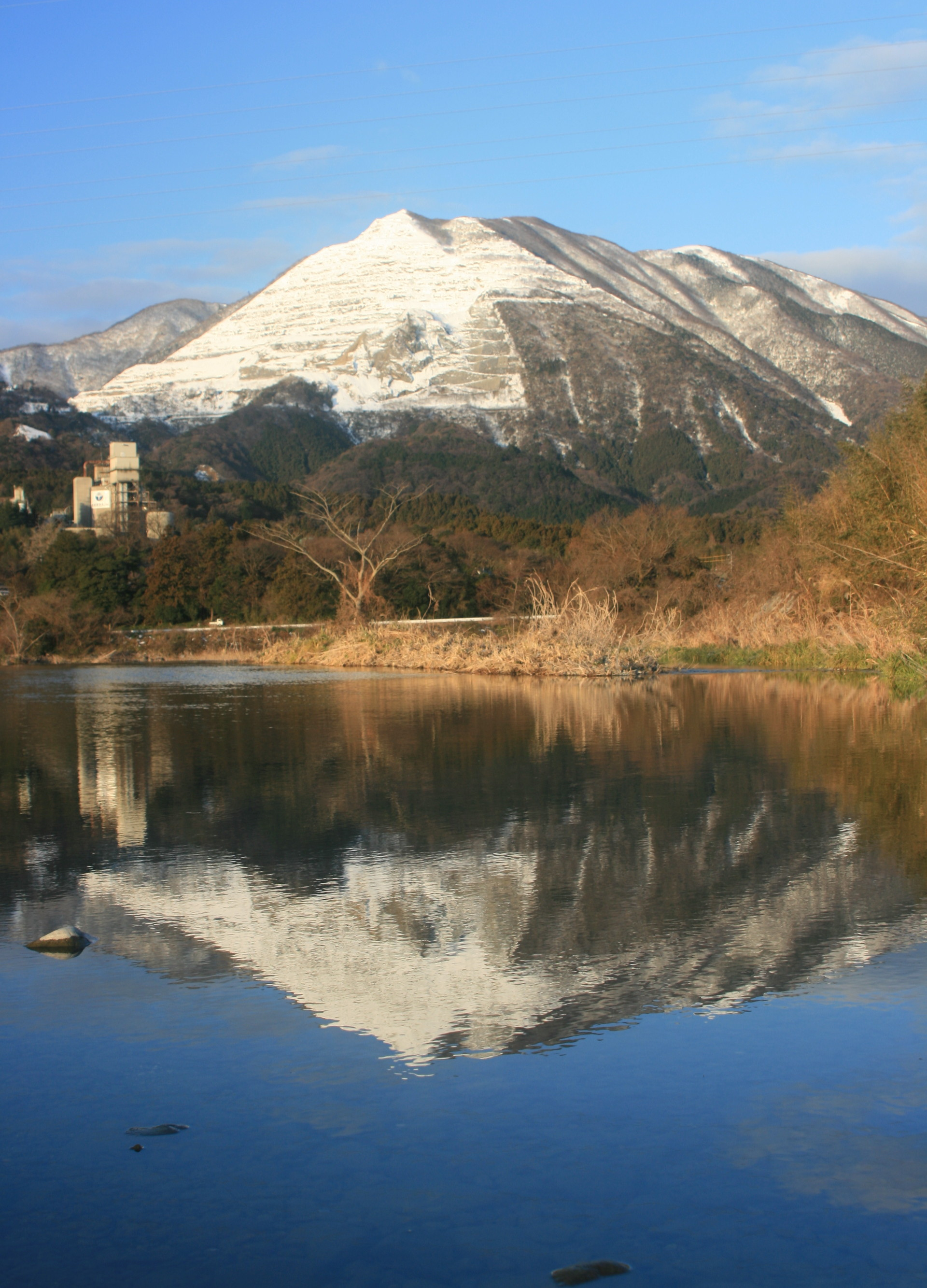 Mount Fujiwara reflected on Inabe River